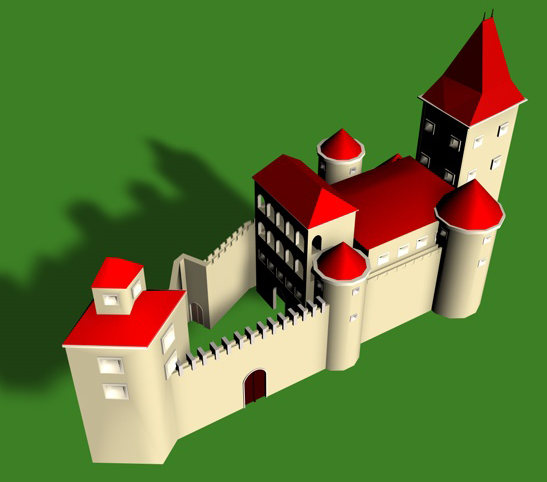 3D drawing of old castle